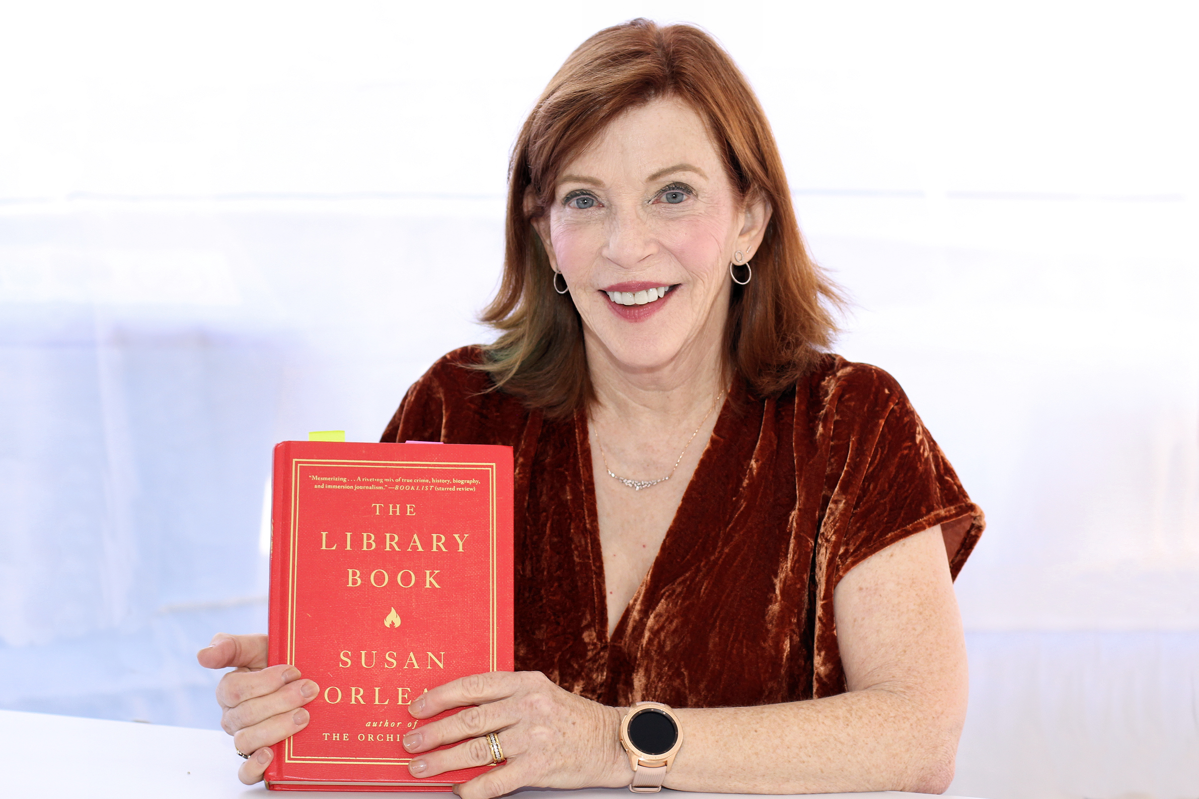 Author Susan Orlean at the 2018 Texas Book Festival in Austin, Texas, United States.